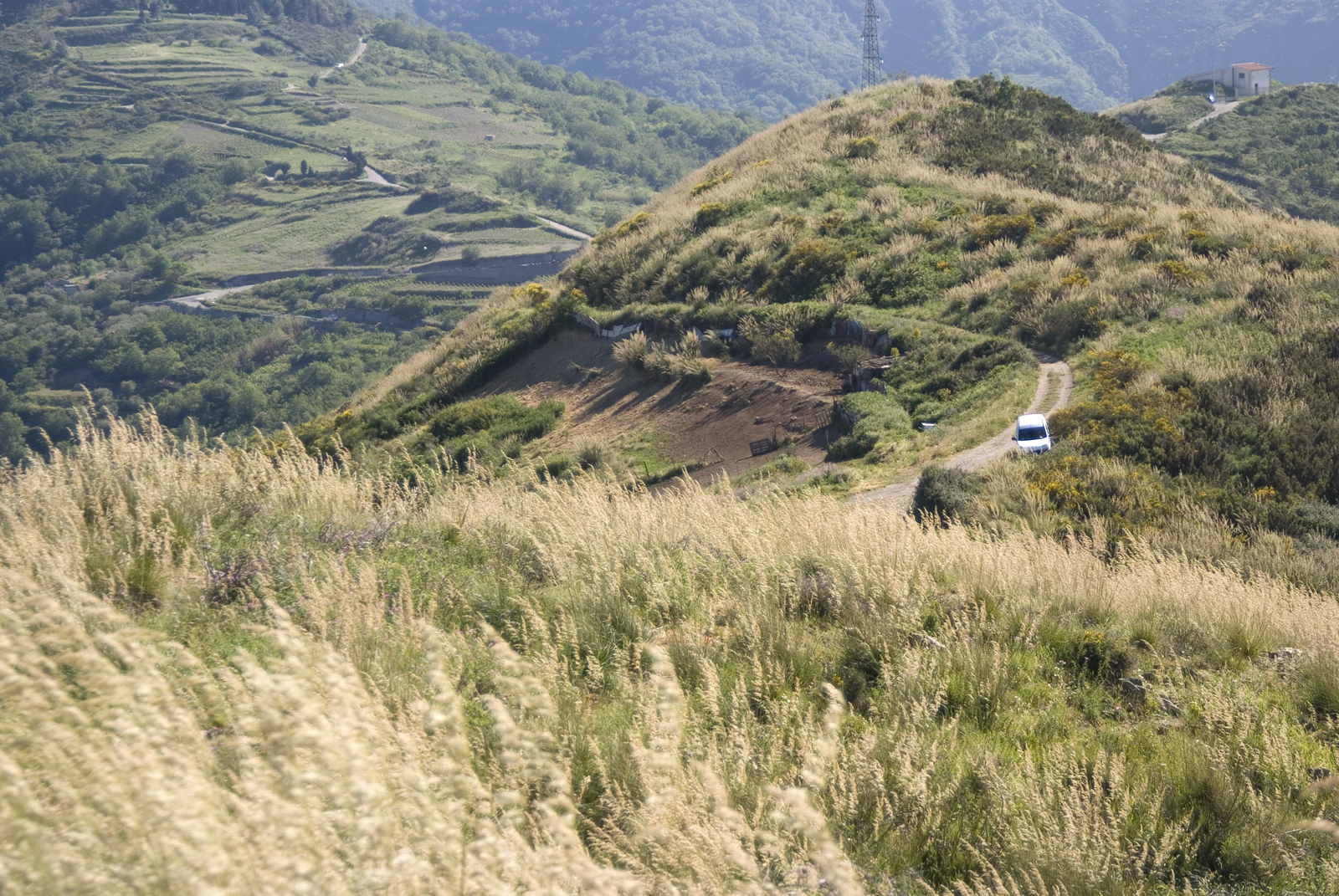 nebrodi near gioiosa guadia